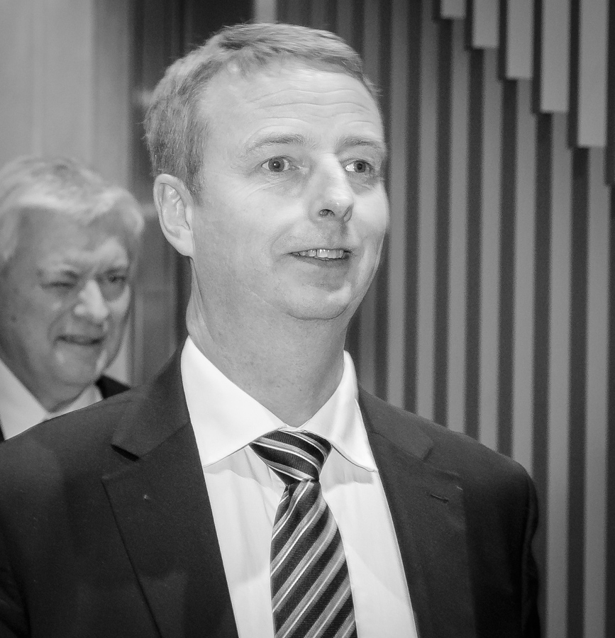 Terje Søviknes at Governor Øystein Olsen's annual address in February 2018